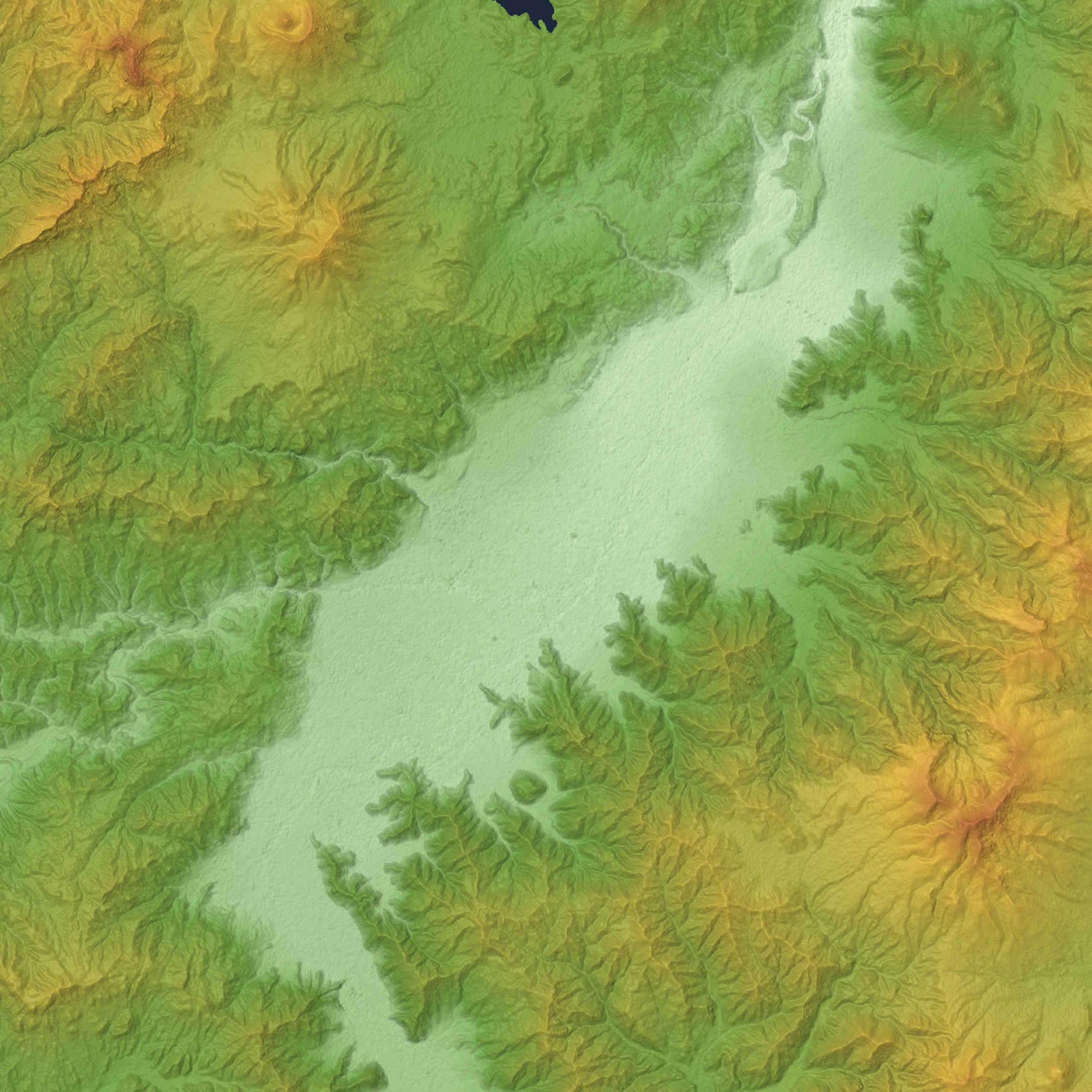 Nagano Basin in Nagano Prefecture, Honshu, Japan.